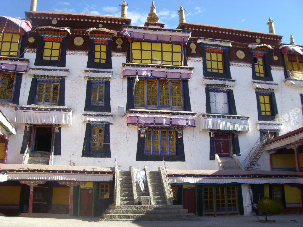 Ganden Phodrang, the residence of Dalai Lama at Drepung Monastery, Lhasa, Tibet.